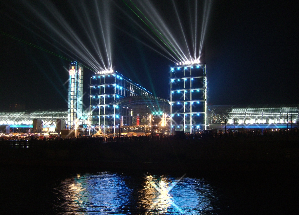 Opening of the Berlin central station